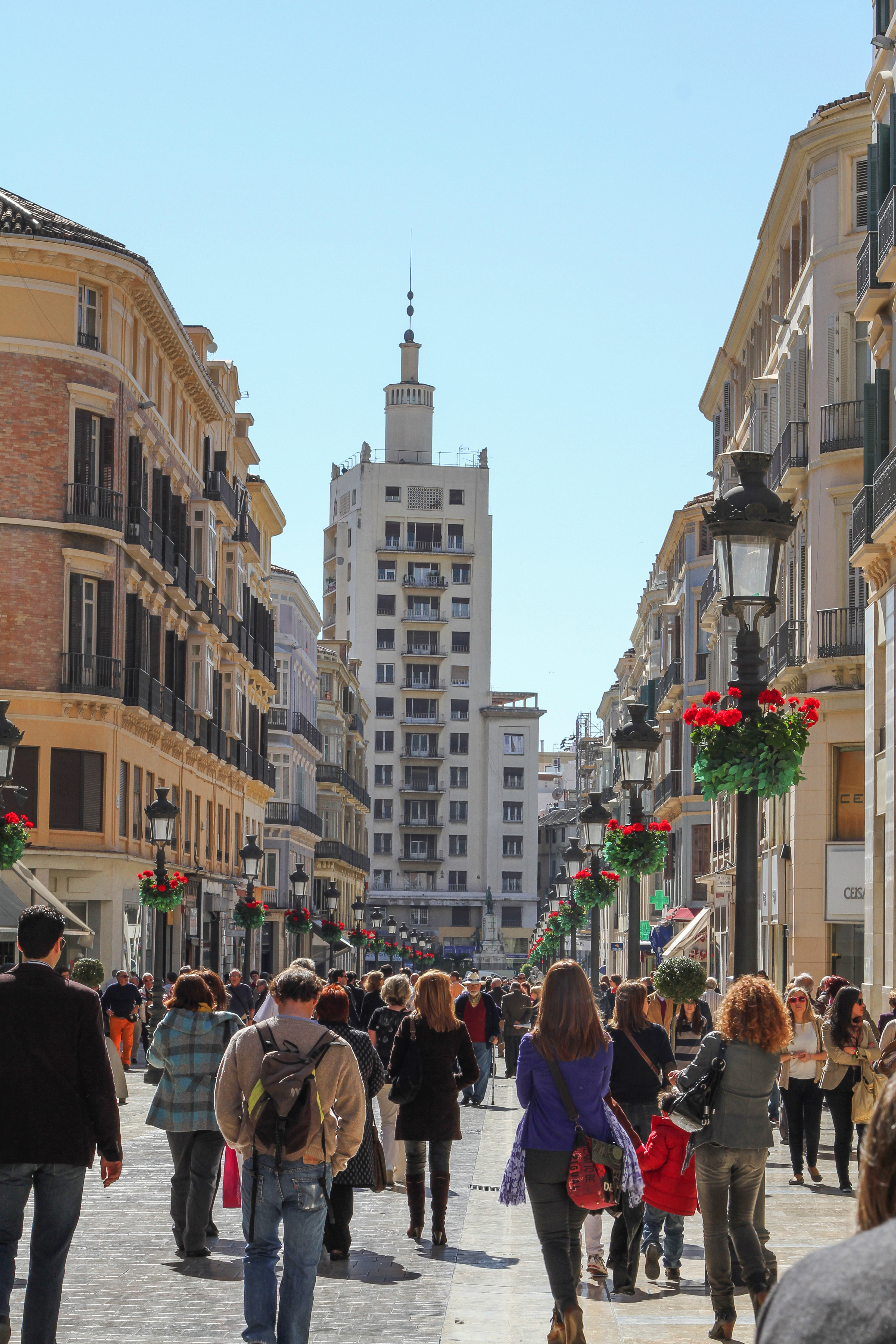 Marques de Larios Street, Málaga, Spain.